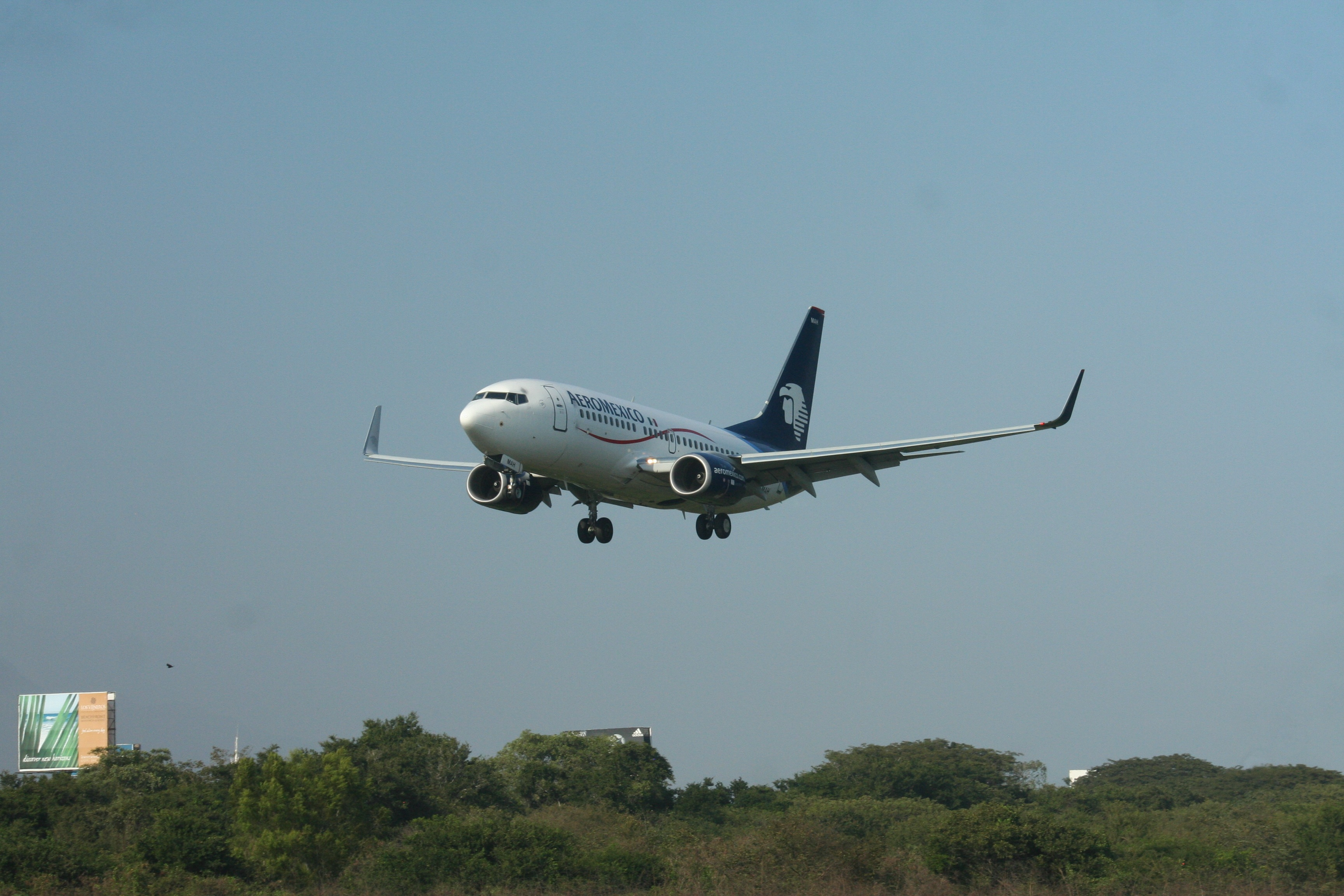 B-737 of Aeromexico landing at Puerto Vallarta (PVR)